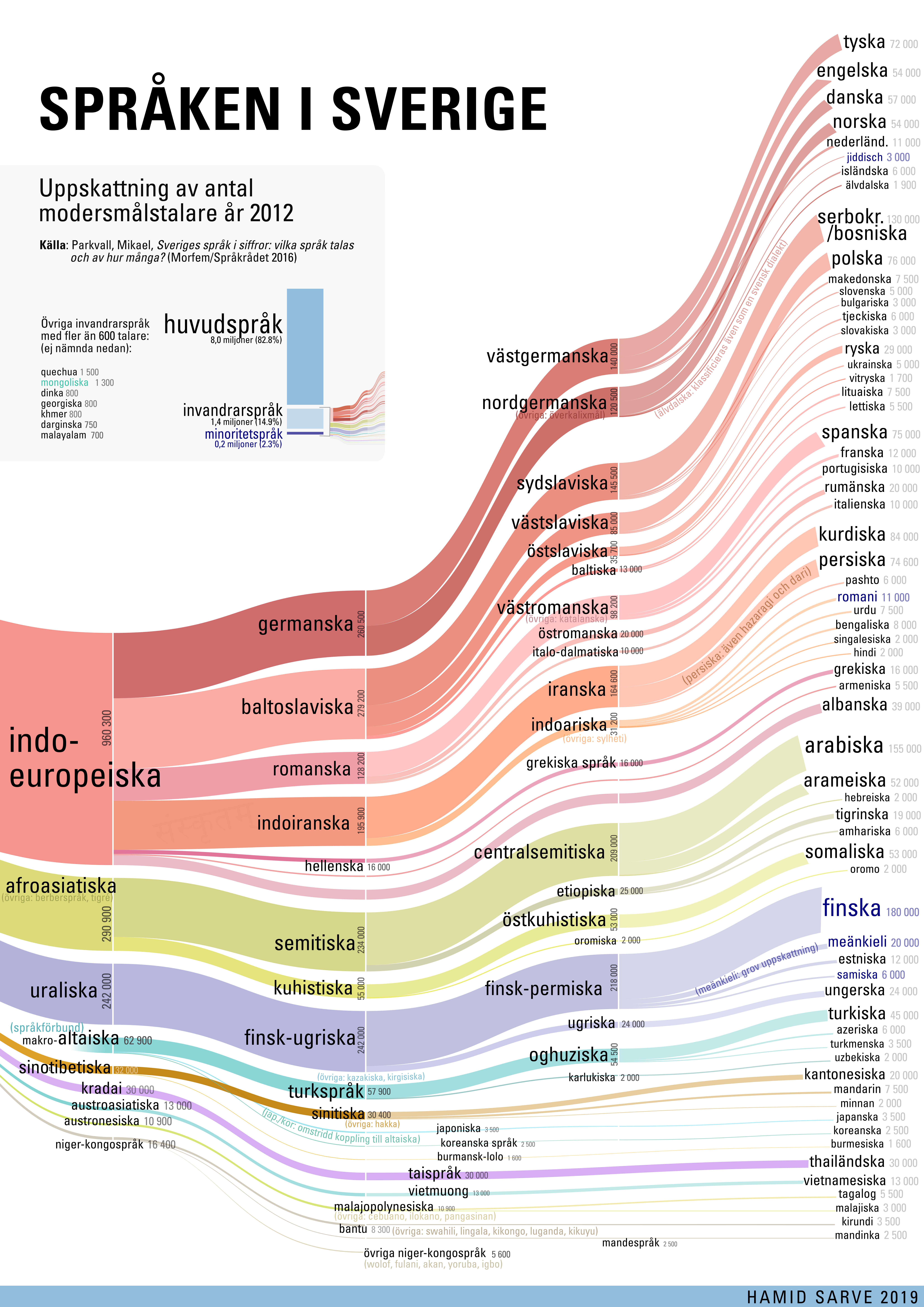 Estimated mother-tongue speakers in Sweden, as of 2012